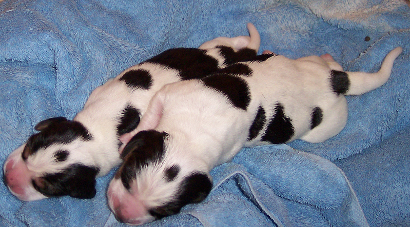 Image of 34 hour old beagles puppies. Please note, mother was only inches away and is cropped out (don't worry). Left is Odie, Right is Snoopy. Mother is my dog, Lily.